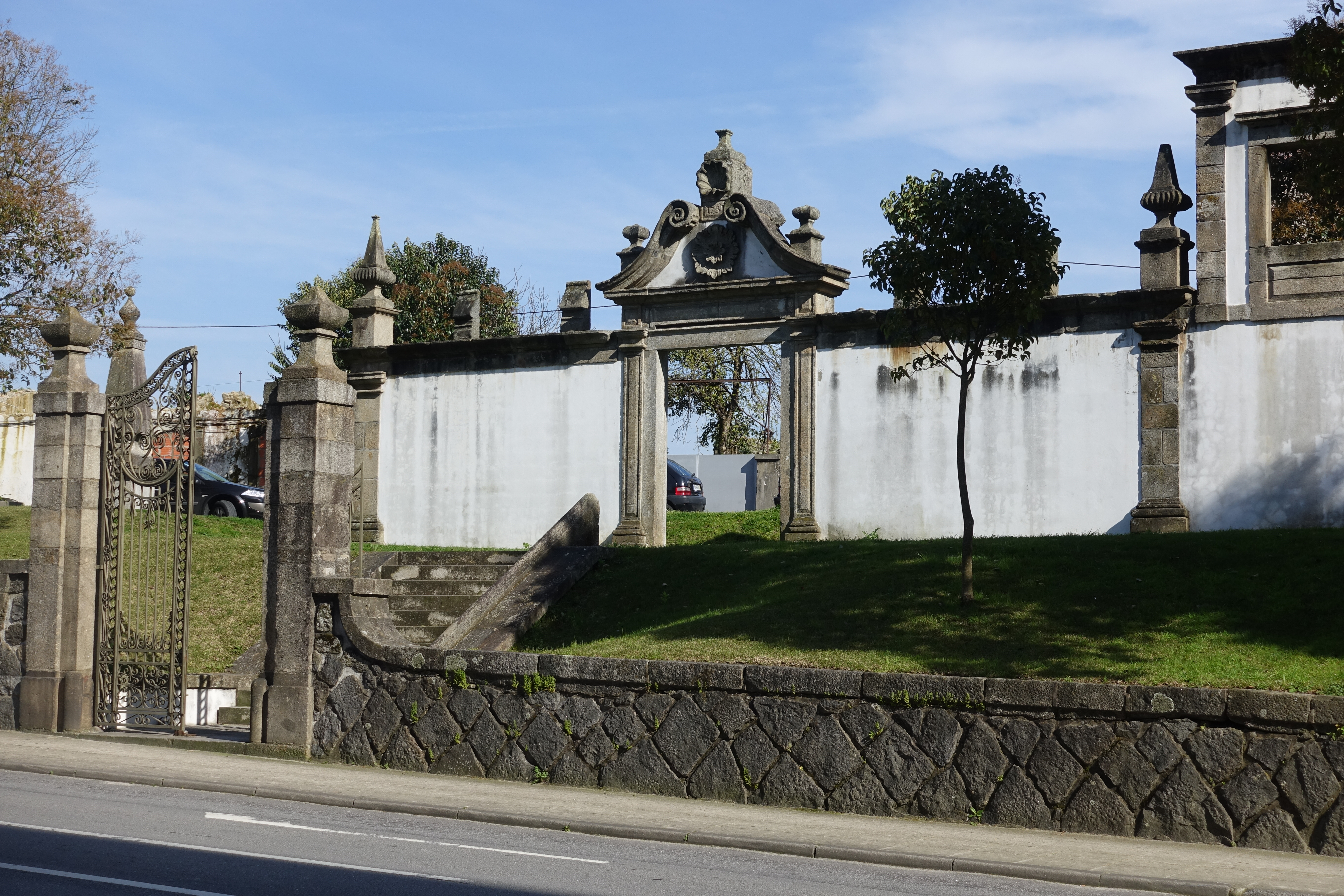 Orge House in Braga, Portugal.